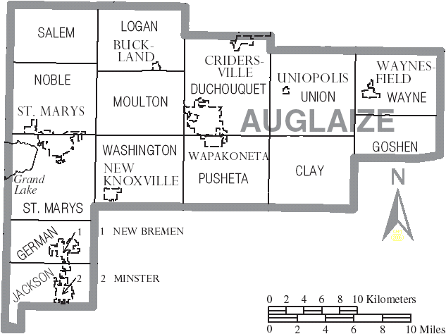 Map of Auglaize County, Ohio, United States with township and municipal boundaries